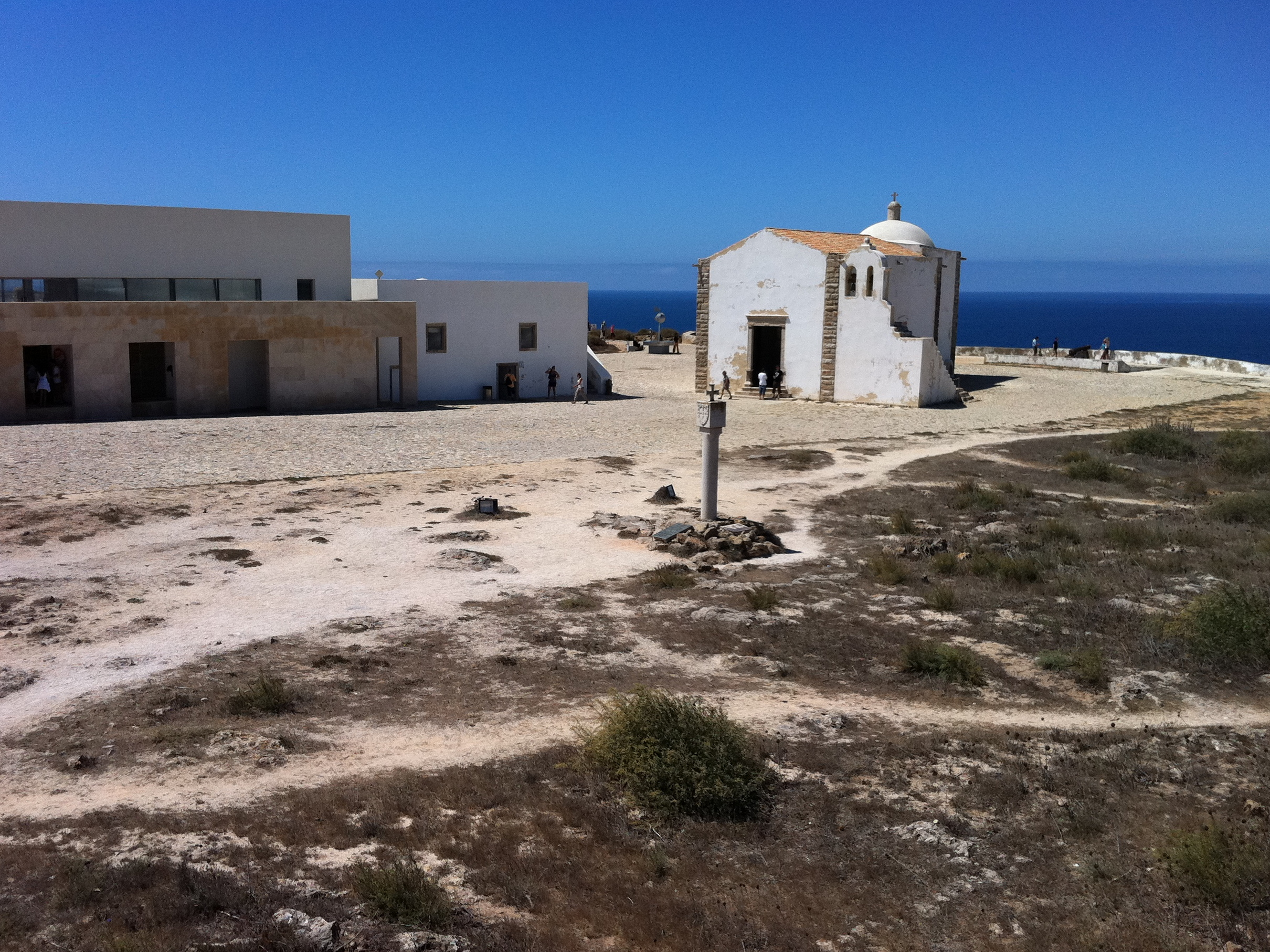 This file was uploaded for Wiki Loves Monuments in Portugal with the unique identifier 70550.